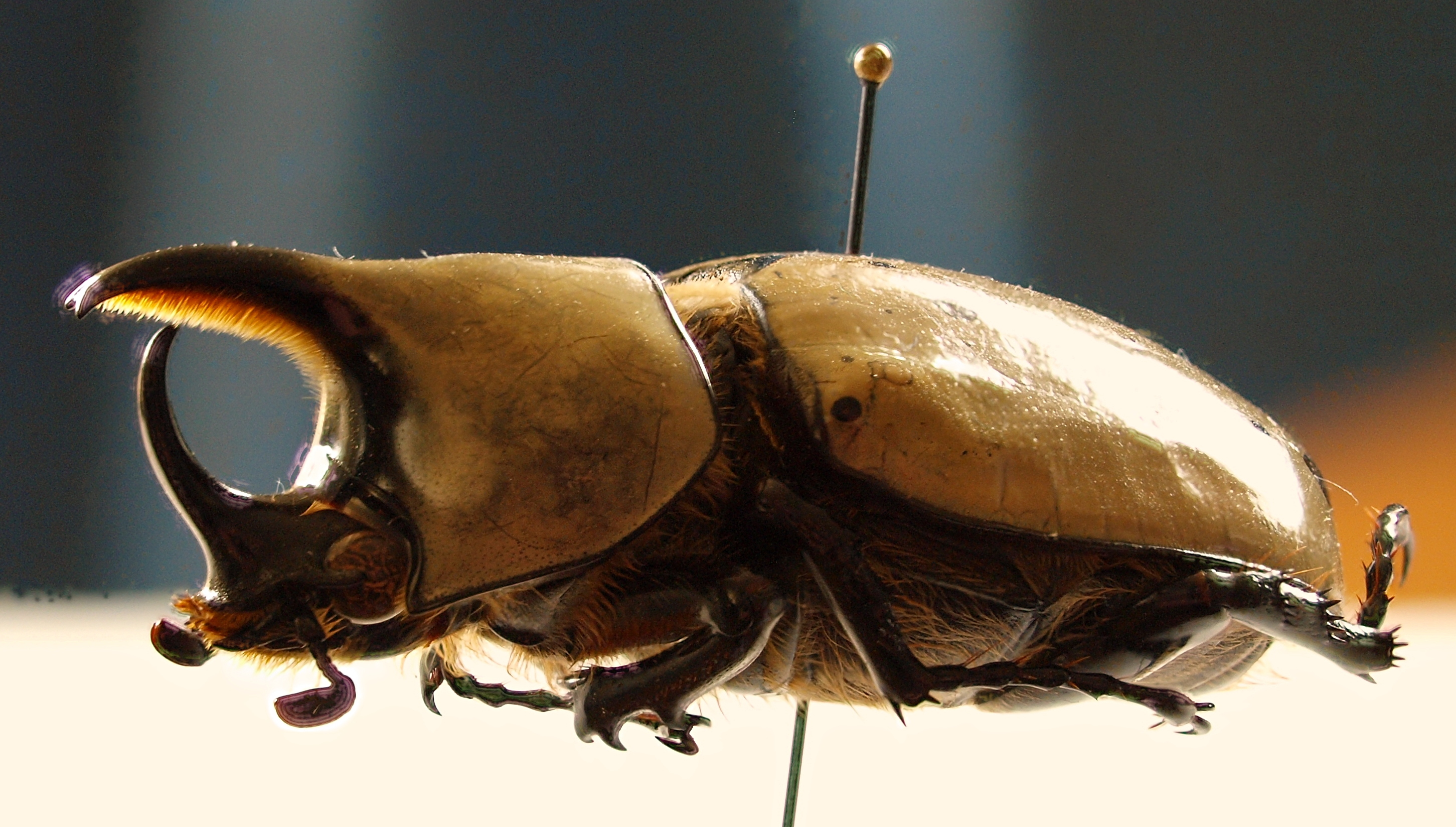 Dynastes granti, male (Arizona), stacked image. Source: own collection